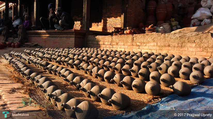 Pottery in Bhaktapur, Nepal